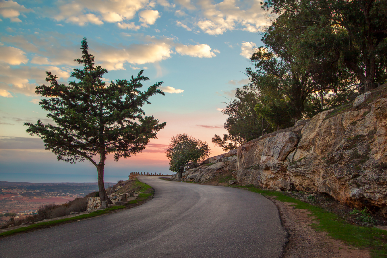 Cyrene Aljabal Alakhdar